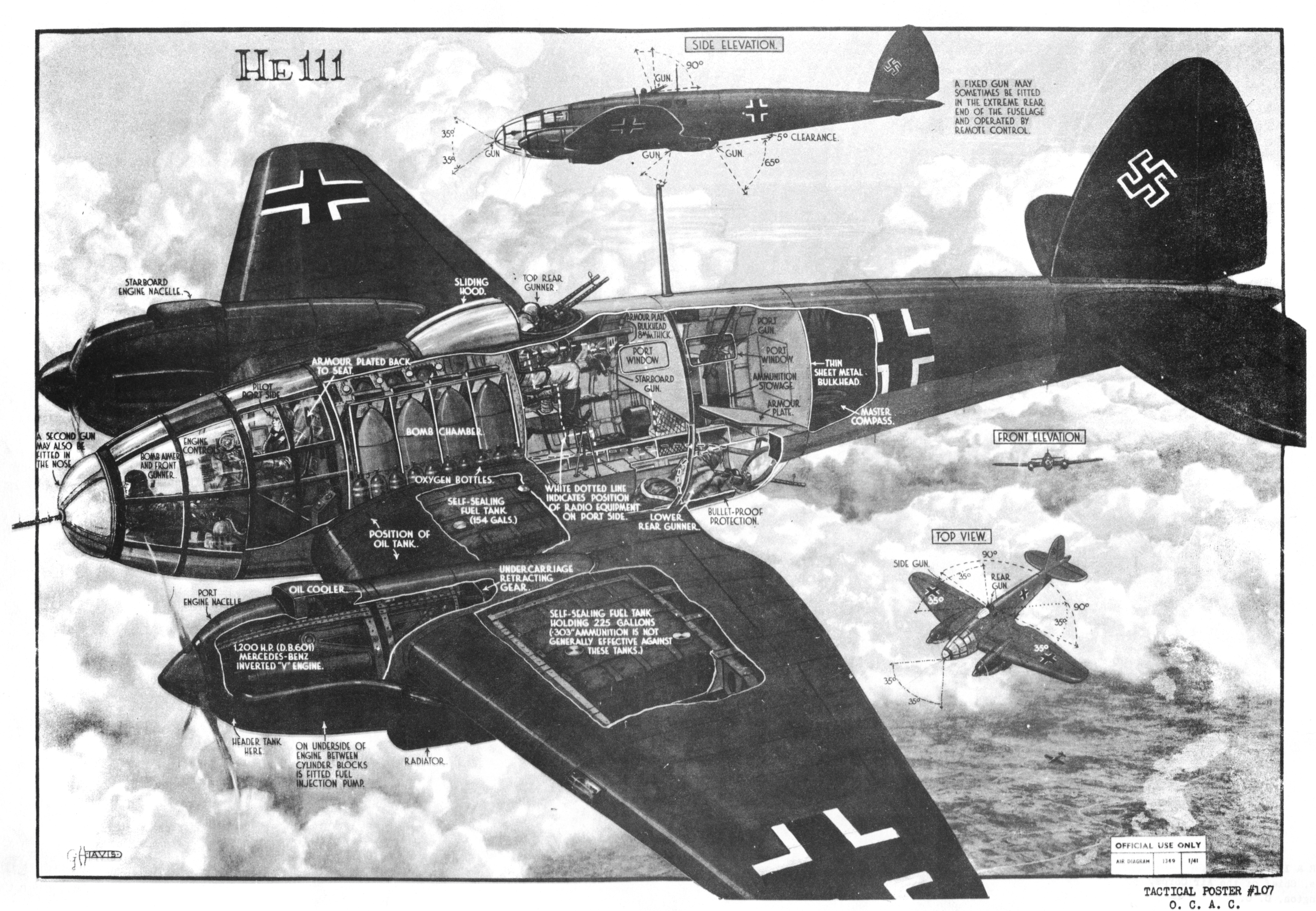 Cutaway drawing of the Heinkel He 111P bomber.